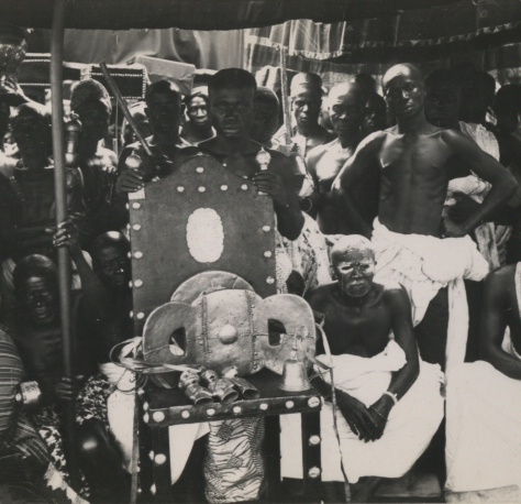 Original caption: "Photo of the Asante Golden Stool with its immediate caretaker."